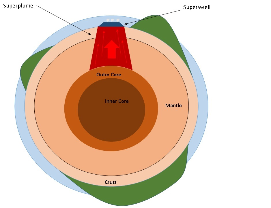 Illustration of Superswell formation by Superplume